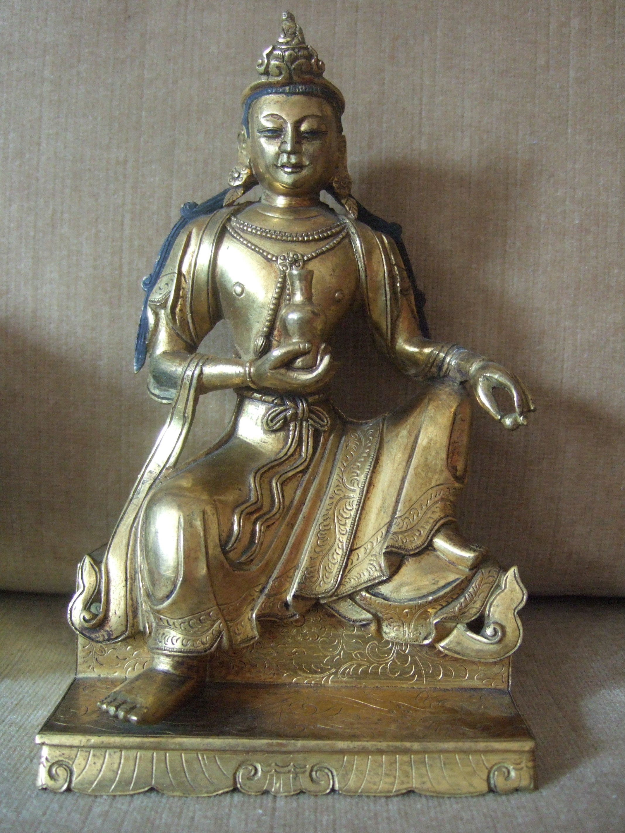 Tibetan guilded bronze statue of an unidentified Boddhisatva (18th century)